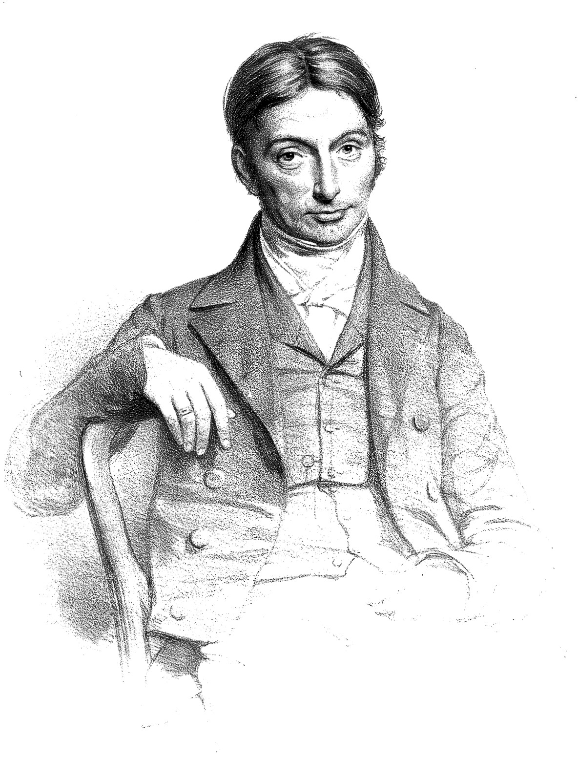 John Flint South Iconographic Collections